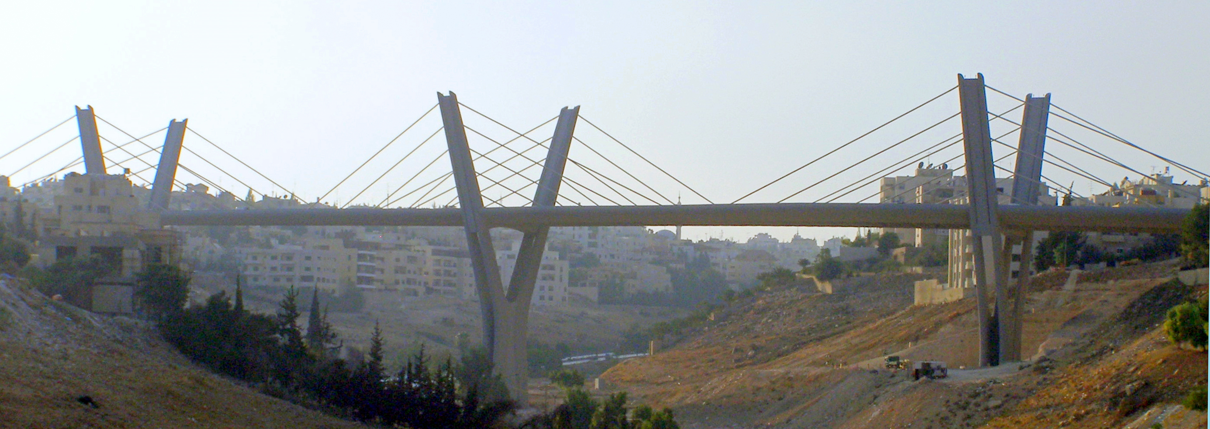 Abdoun Bridge Panoramic view